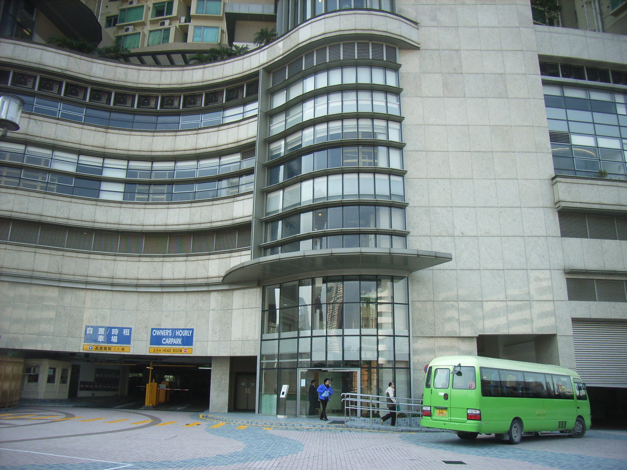 凱帆軒（Hampton Place） 是zh:香港zh:西九龍zh:奧運站的一個私人屋苑. Photo by User:OLAMB